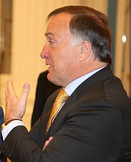 Dick Advocaat in Kremlin